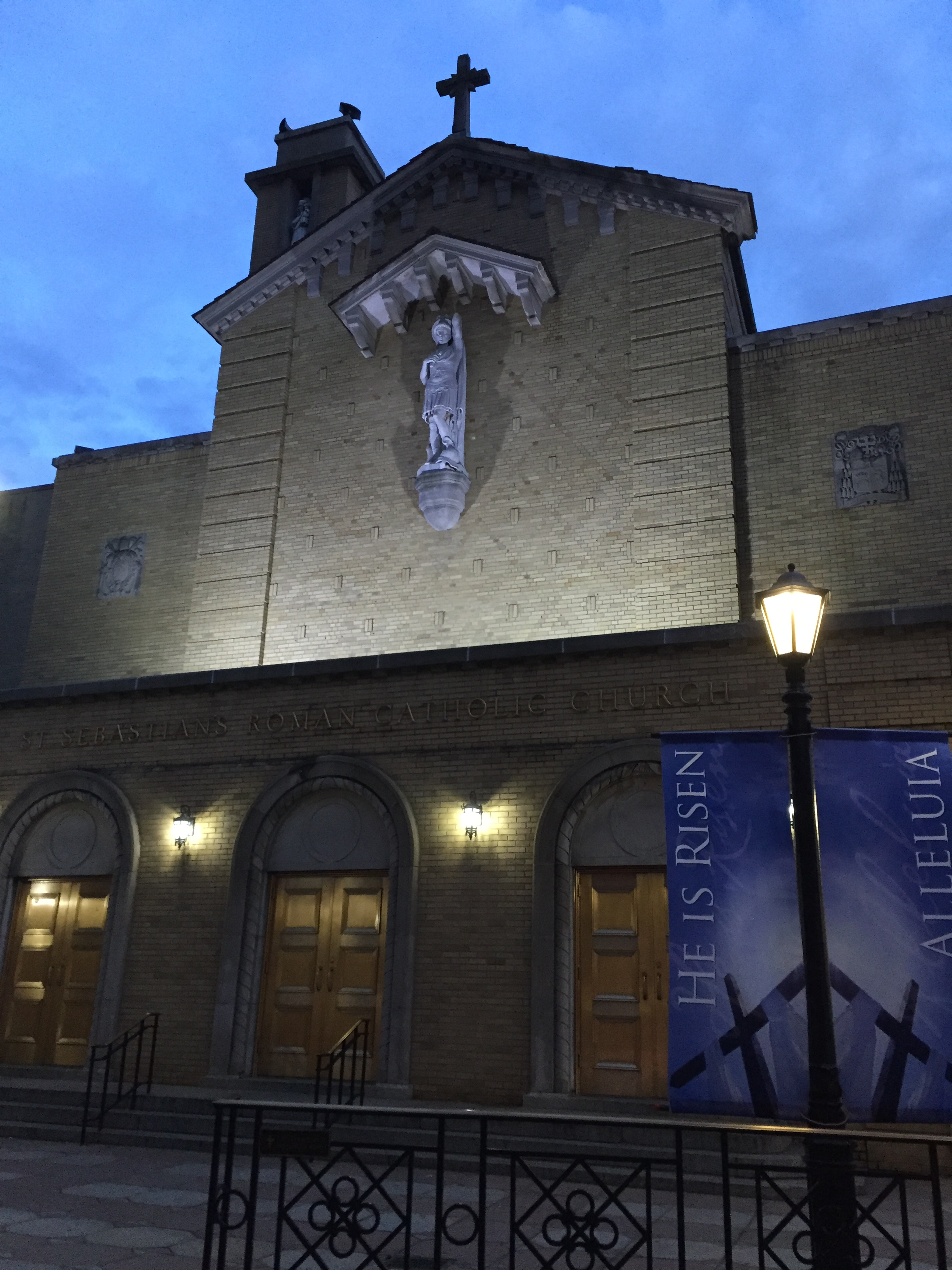 St. Sebastian Catholic Church in Woodside, Queens in 2019